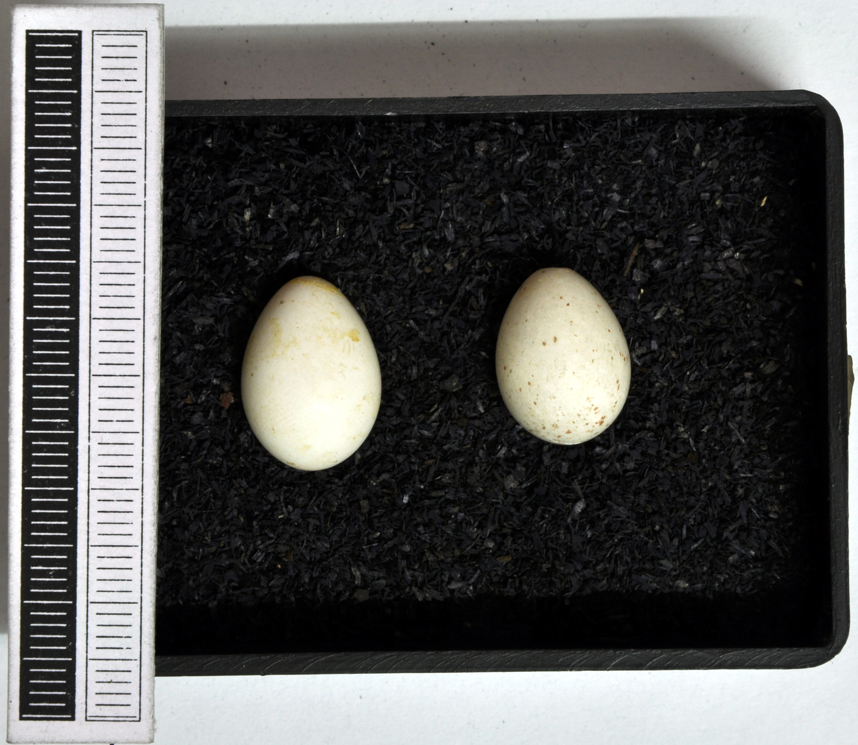 Sand martin Riparia riparia, egg, Coll. Museum Wiesbaden, Origin: Värmlands Län, Sweden, 17.06.1964, leg. W. Abelmann